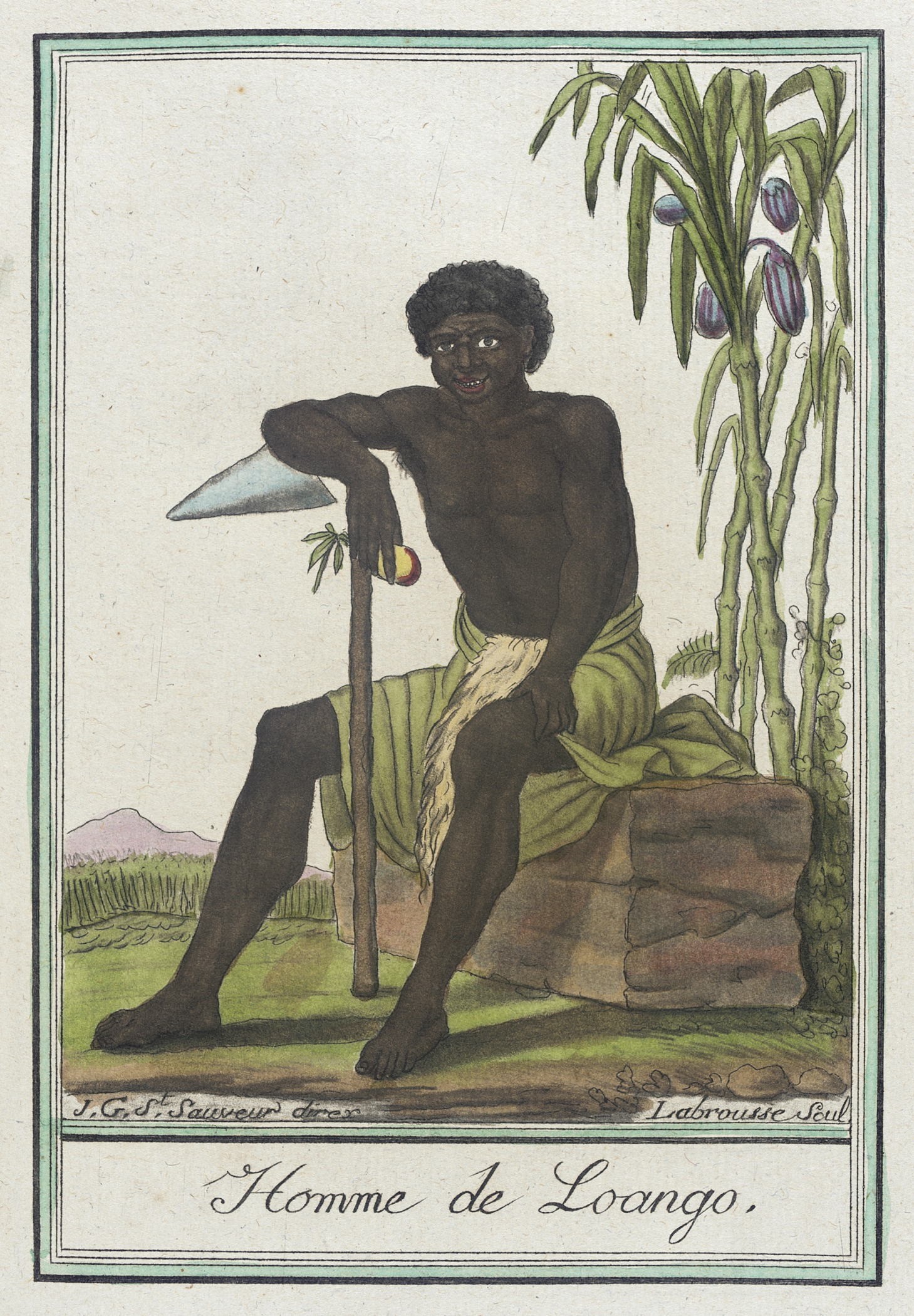 France, circa 1797 Prints; engravings Hand-tinted engraving on paper Sheet: 10 1/8 x 7 7/8 in. (25.72 x 20.01 cm); Composition: 8 3/8 x 5 7/8 in. (21.27 x 14.92 cm) Costume Council Fund (M.83.190.312) Costume and Textiles